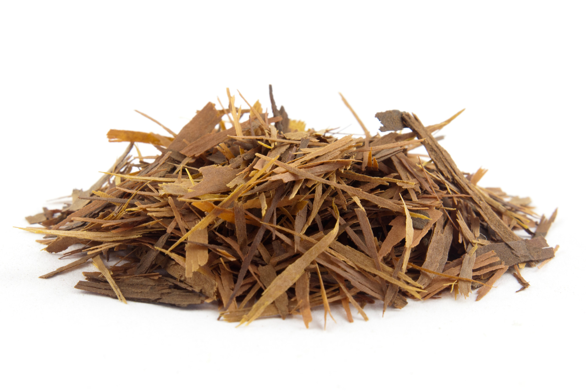 Lapacho or Taheebo, a tisane made from the inner bark of Pink Ipê, Tabebuia impetiginosa